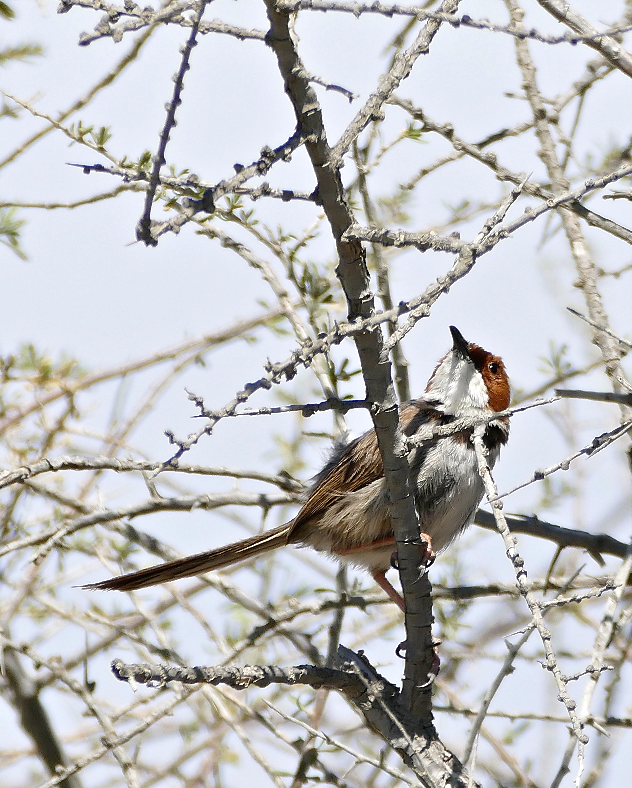 Ubejane Loop, Mountain Zebra NP, Eastern Cape, SOUTH AFRICA